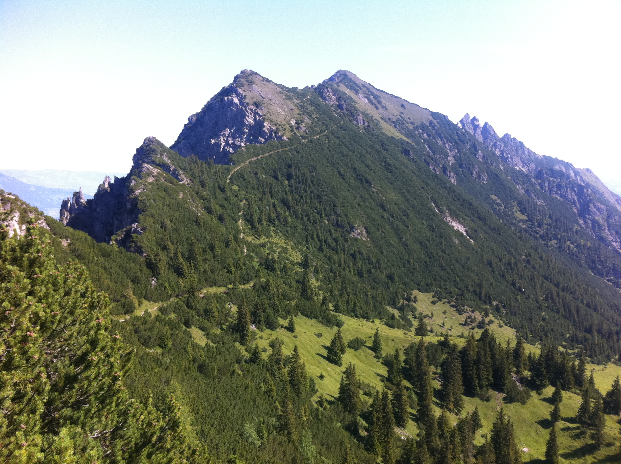 The Fürstensteig route going past Sattelspitz to Drei Schwestern with Gafleispitze (2000m) in the distance. Photo taken from around the peak of Saroja.